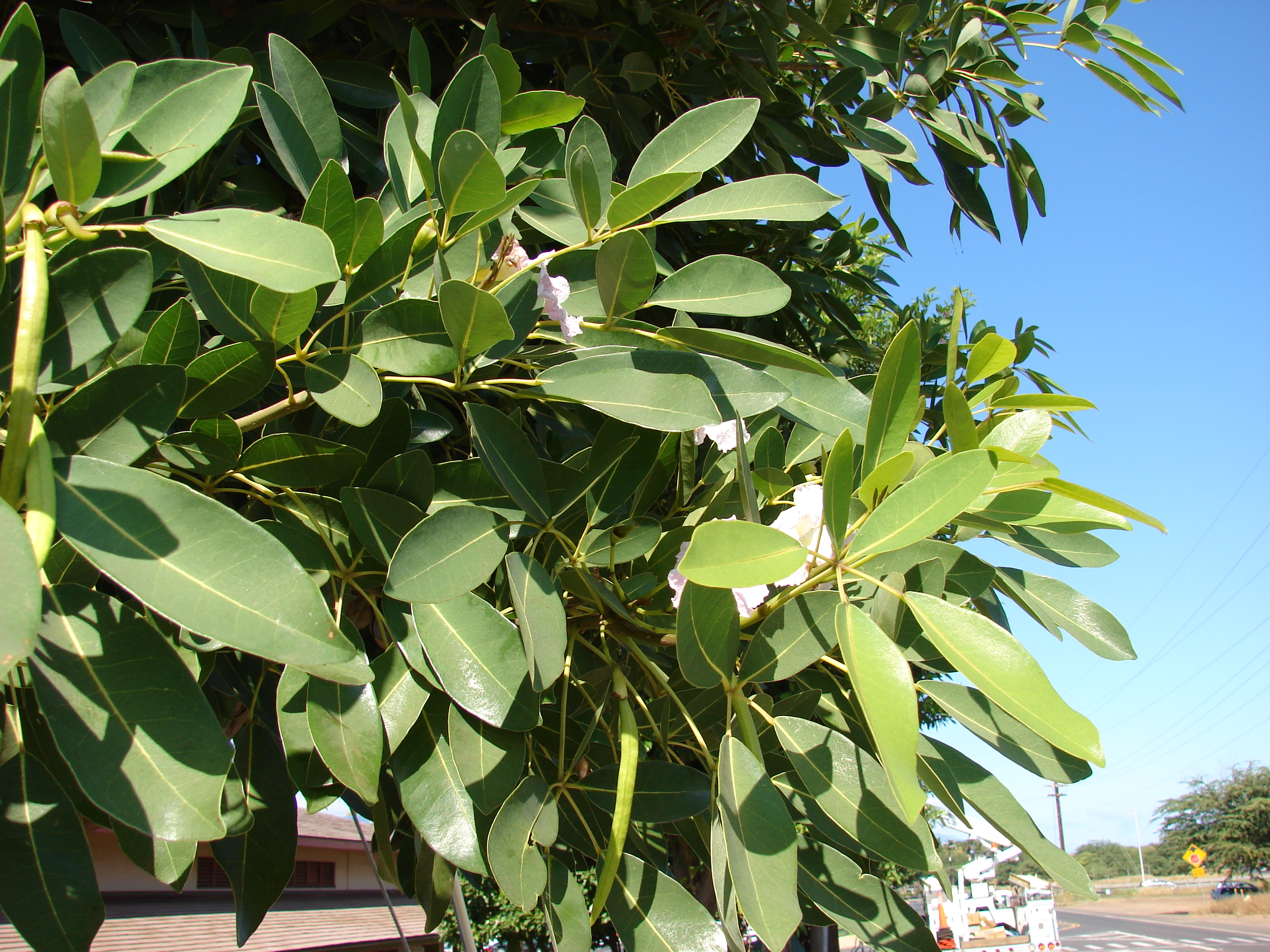 Tabebuia rosea (leaves and flowers). Location: Maui, Kihei